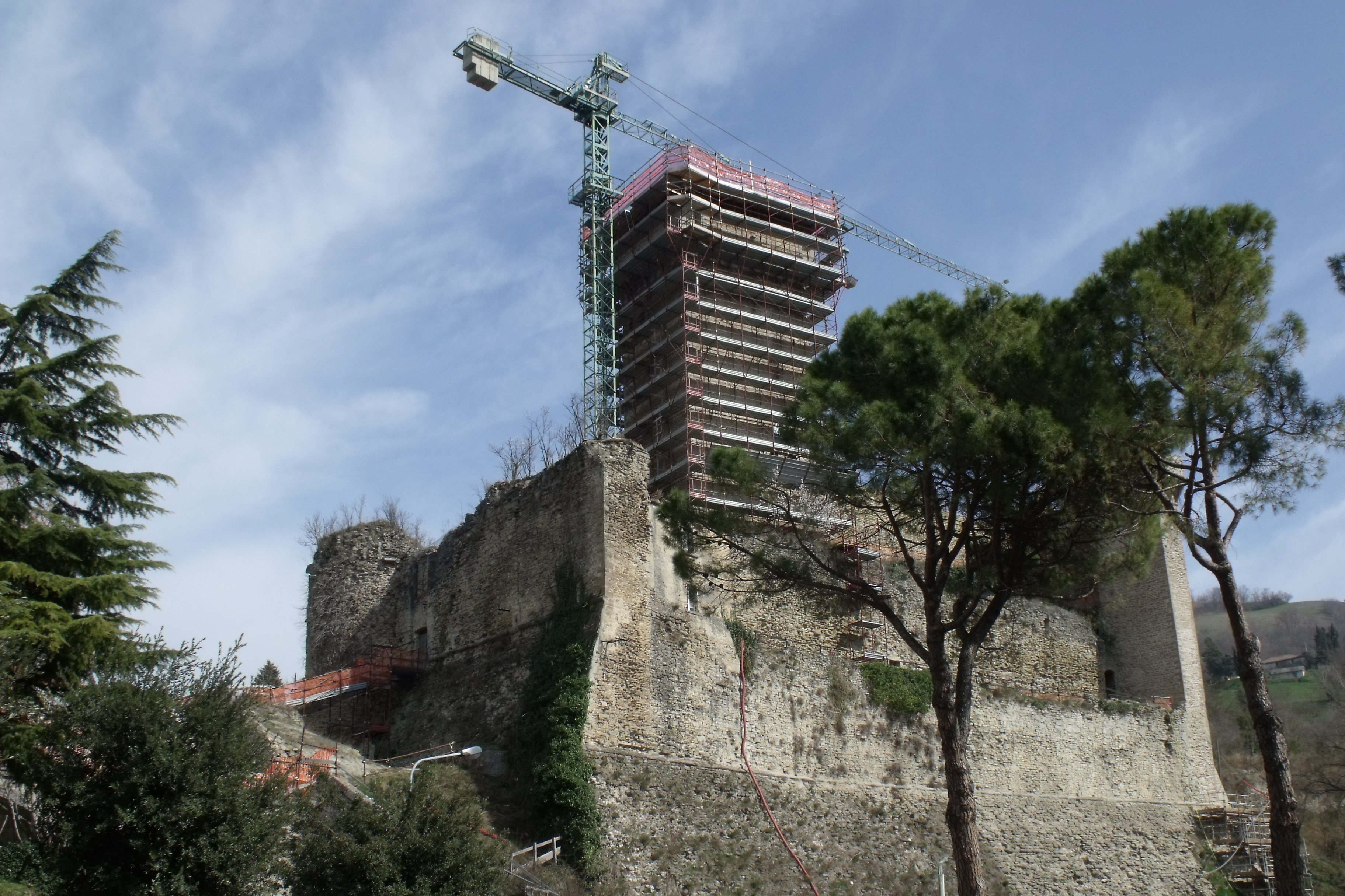 Rocca dei Conti Guidi in Dovadola, Province of Forlì-Cesena, Region Emilia-Romagna, Italy